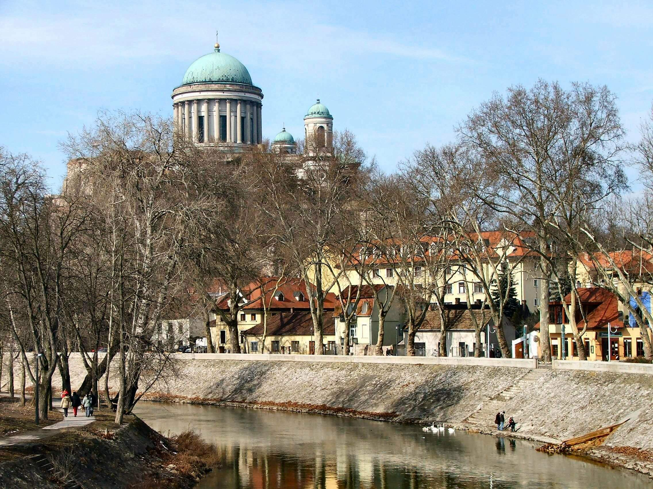 Esztregom cathedral and Kis-Duna branch of Danube in the central part of the city, Hungary